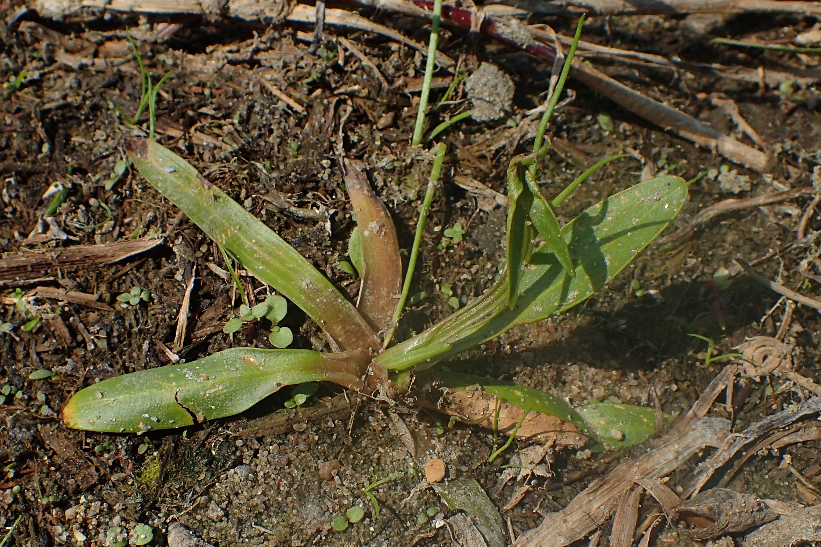 Sagittaria sagittifolia, emerged seedling on Odra river near Raduń (NW Poland)